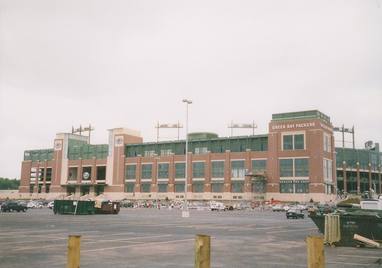 The exterior of Lambeau Field in Green Bay, Wisconsin (United States).